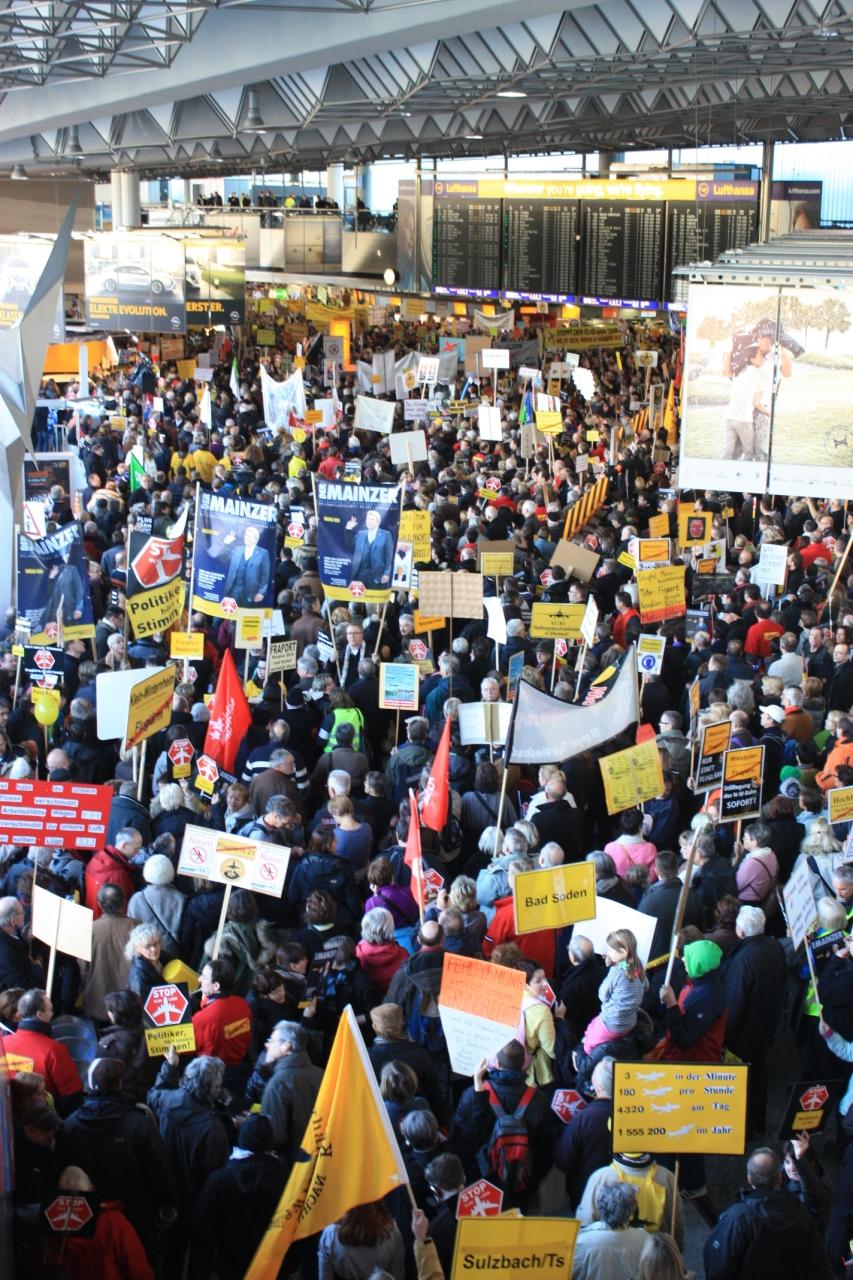 Thousands of people demonstrate at Frankfurt airport against the increase of environmental polution and noise.